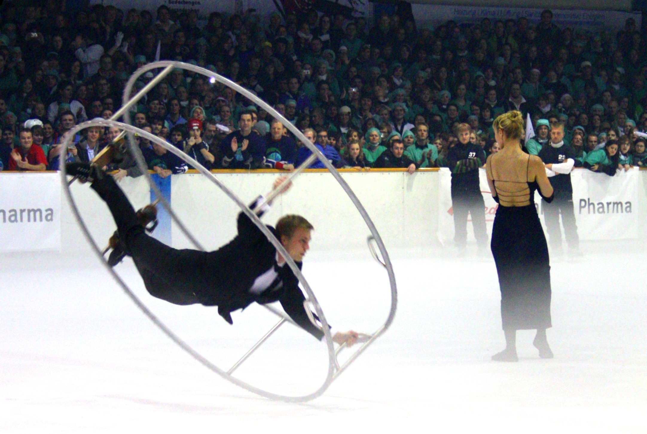 Impression from the Rhönrad-Show at the Ice hockey competition Uni-Cup 2009 of the University Sports Centre of Aachen University for the ThyssenKrupp-Trophy, Aachen, Germany